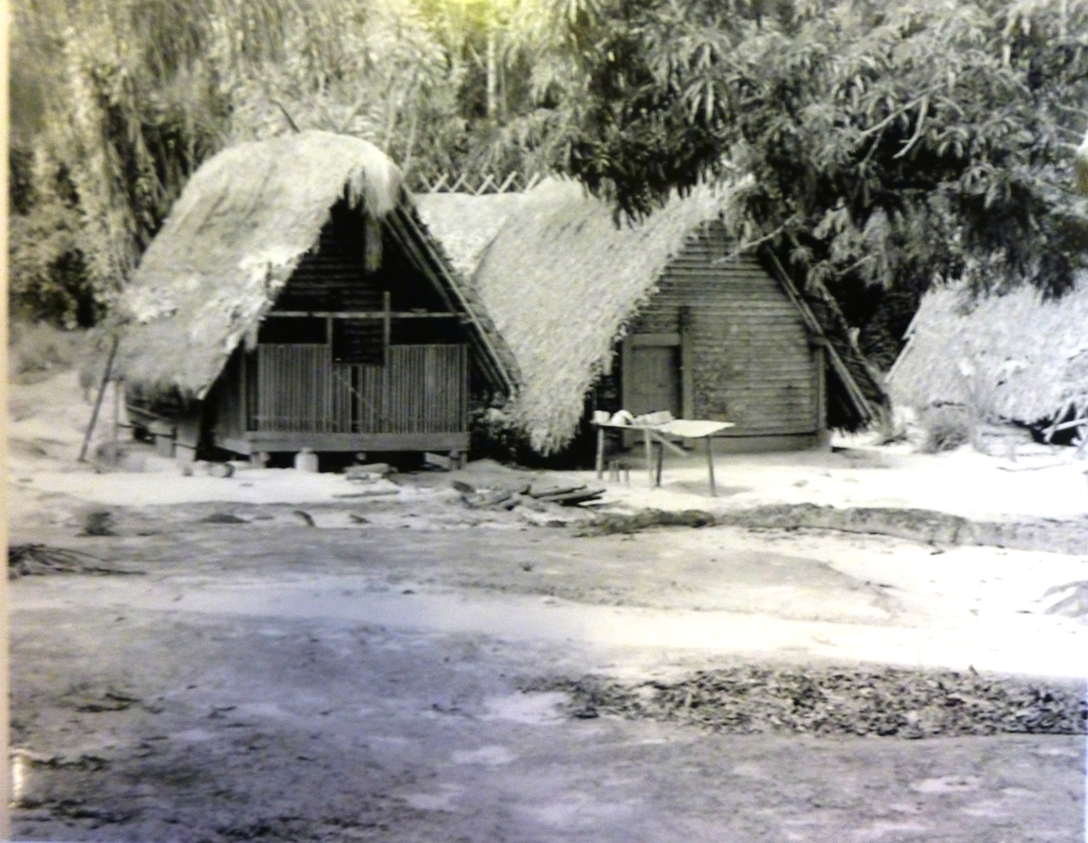 My father took this photo as he was travelling up the Cottica River in 1965 to do medical research. I have inherited the photo.